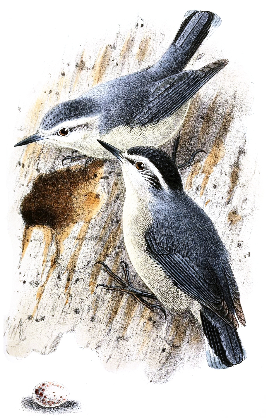 Corsican nuthatch Sitta whiteheadi